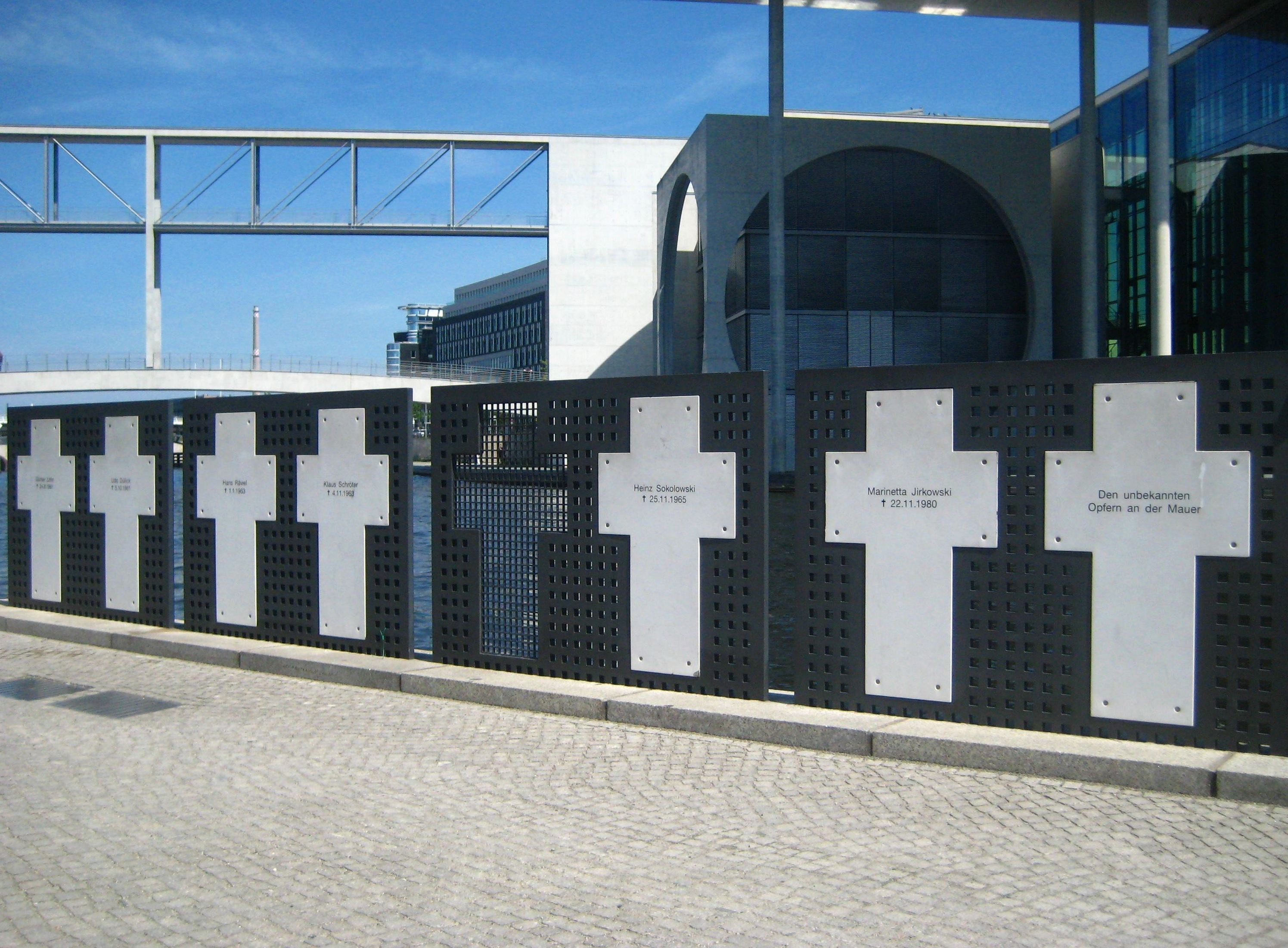 Memorial crosses for victims of the Berlin Wall at the bank of the Spree in Berlin with the Marie-Elisabeth-Lüders-Haus in the background.